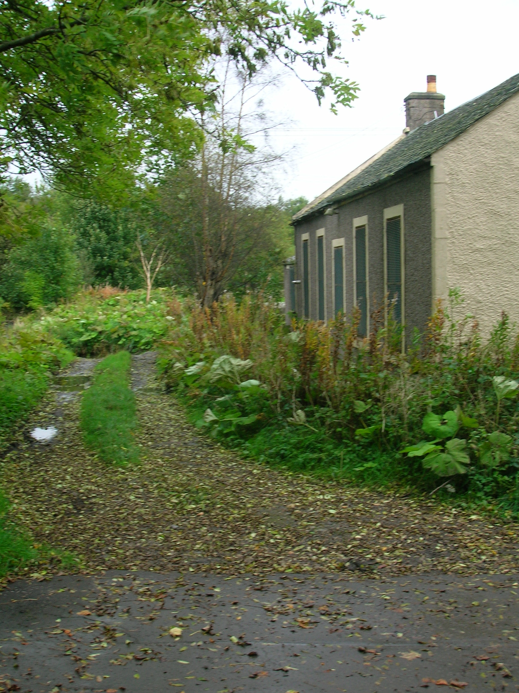 House beside the Rye Water ford.